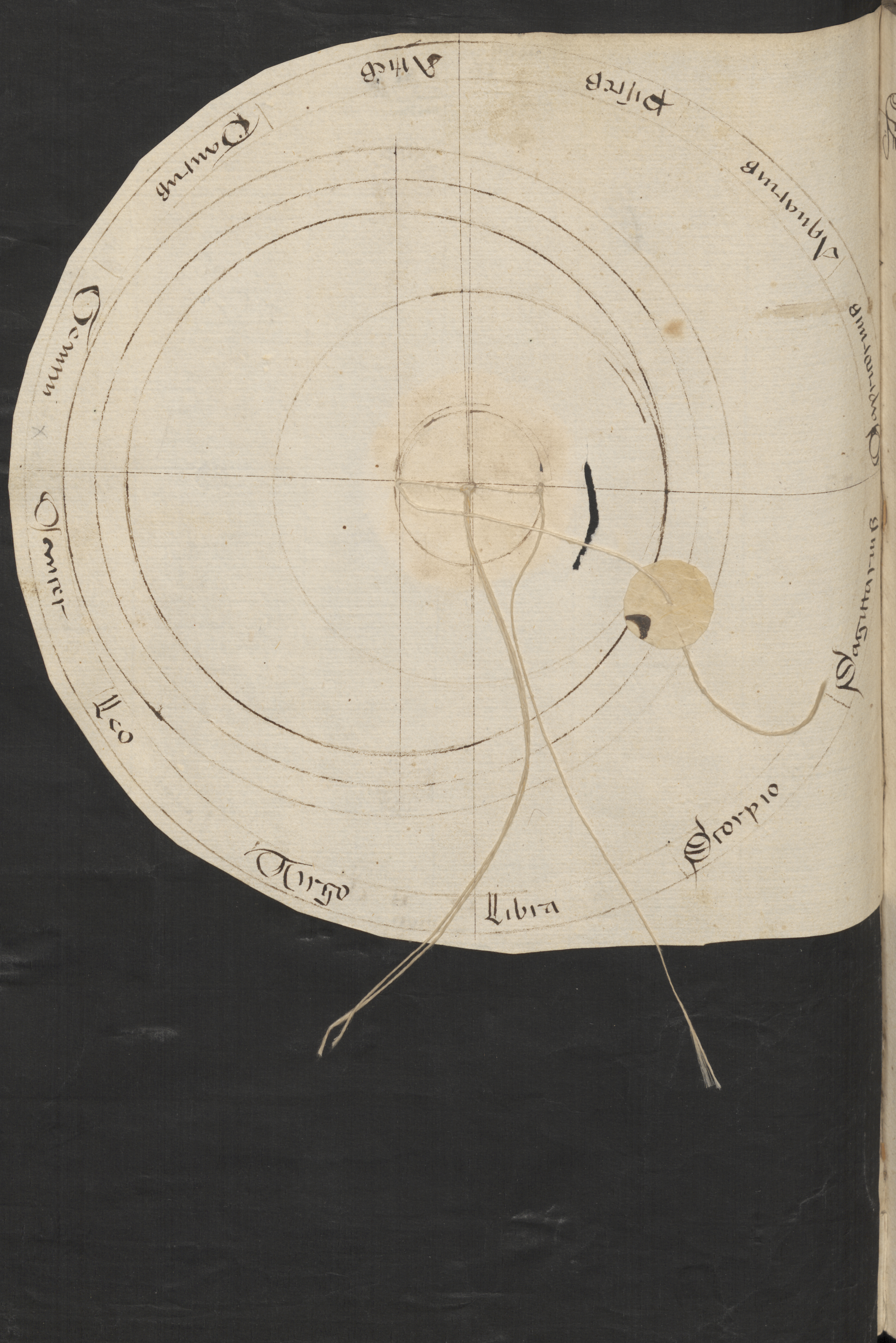 Ms.724, between 57v and 58r